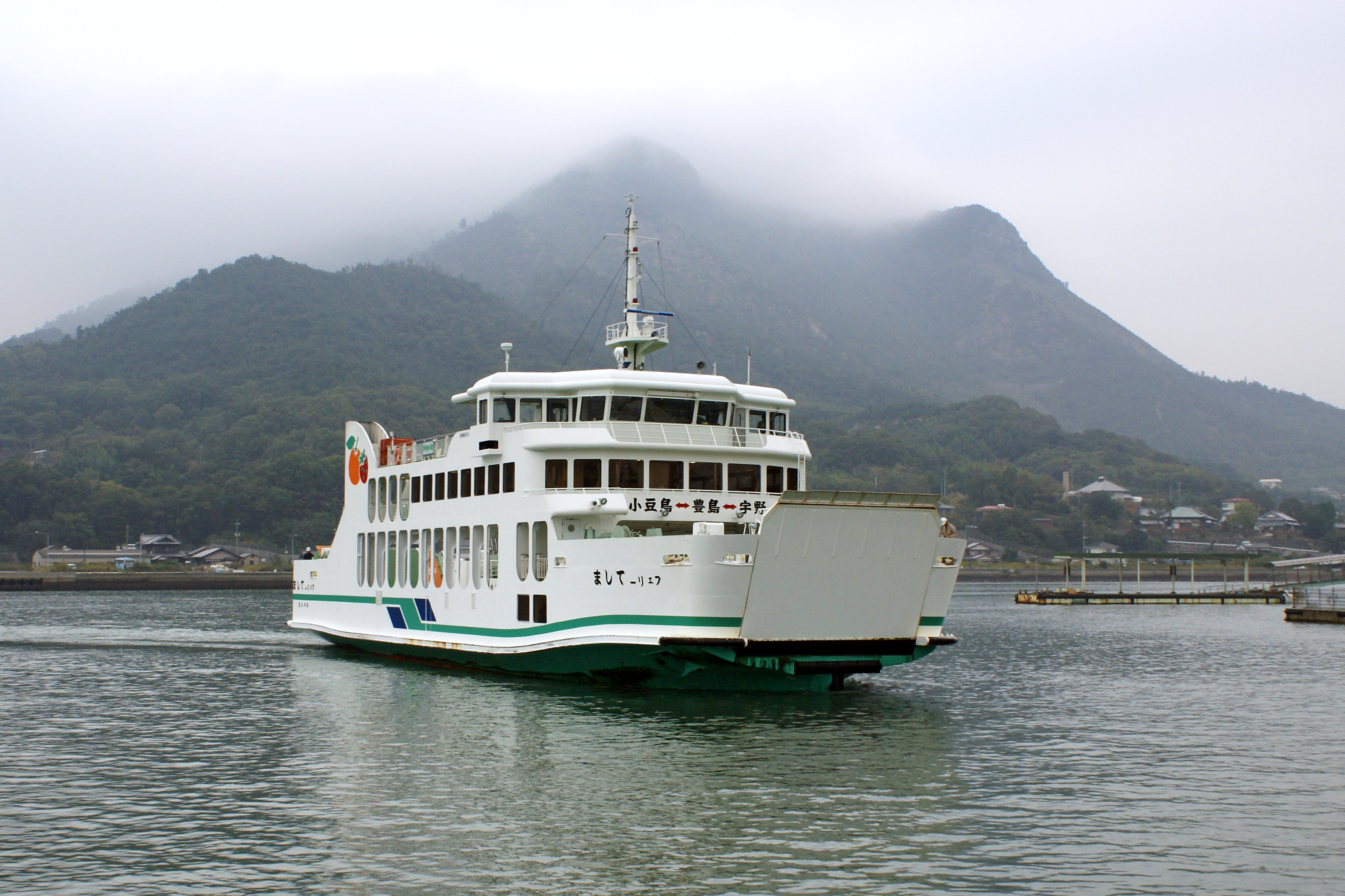 "Ferry Teshima" at Tonosho port in Shodoshima island Kagawa Prefecture, Japan)